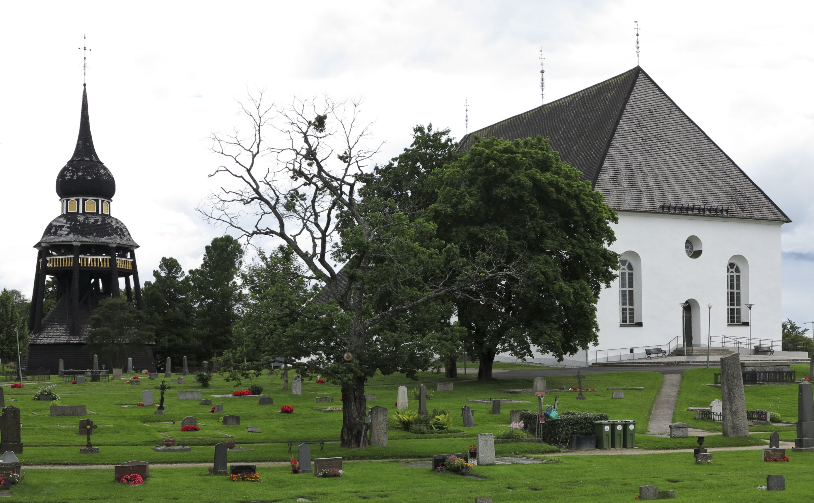 Ljusdal church, Diocese of Uppsala, Ljusdal. Sweden. General view